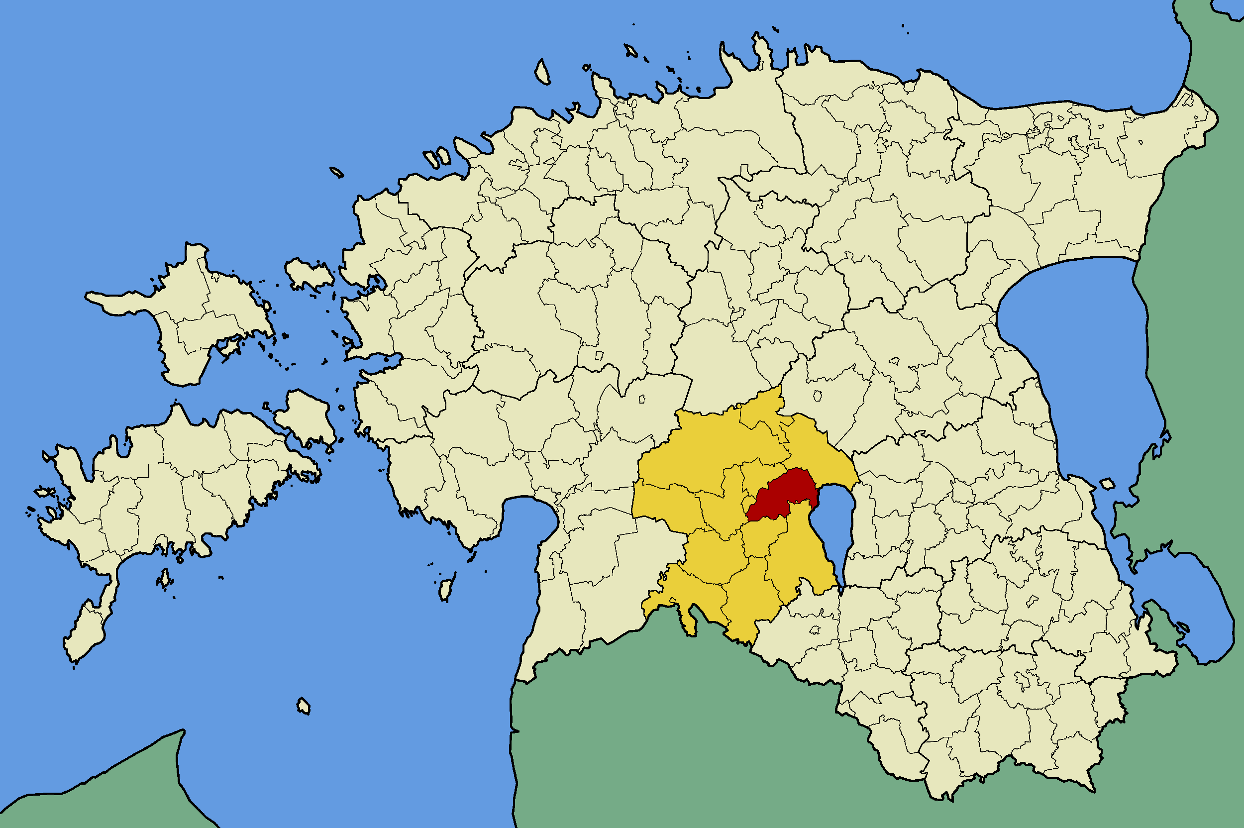 Map of Estonia with borders of municipalities (parishes). Viljandi county and Viiratsi municipality emphasized.